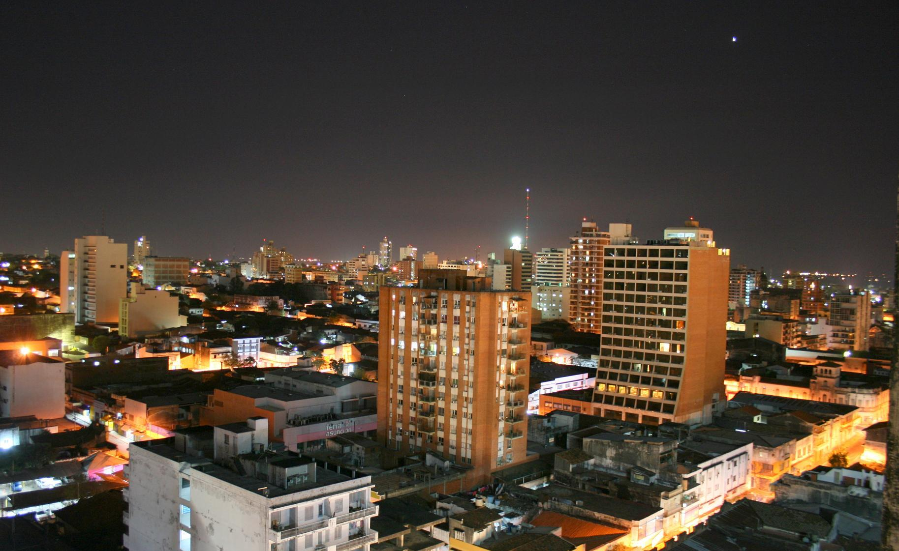 Asunción city at night